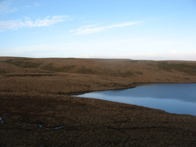 SW end of Llyn Cerrigllwydion Uchaf Photo of the SW end of lake, Llyn Cerrigllwydion Uchaf from the south.